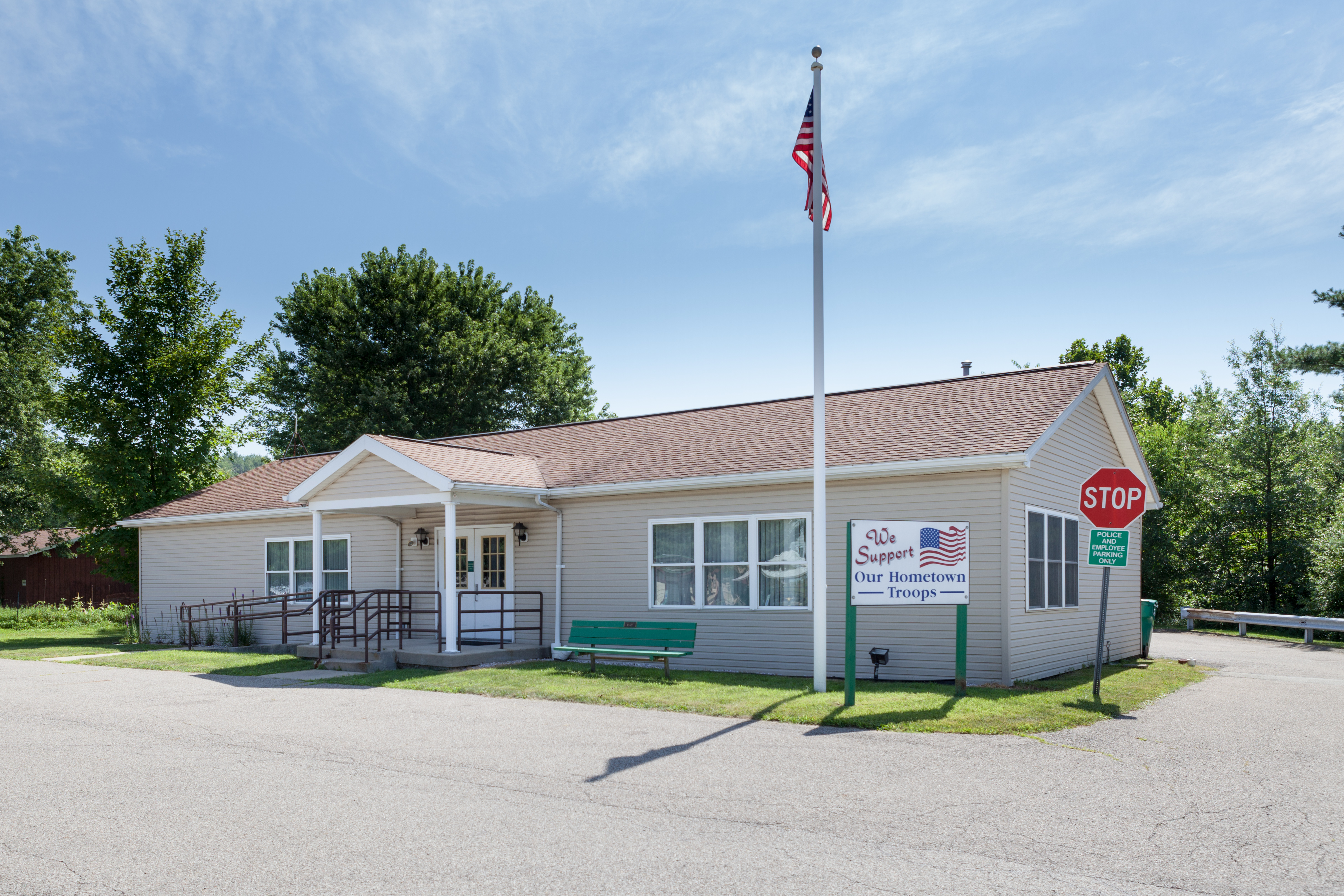 Municipal Building, Springdale Township, Pennsylvania, at 100 Plate Drive Harwick, PA 15049